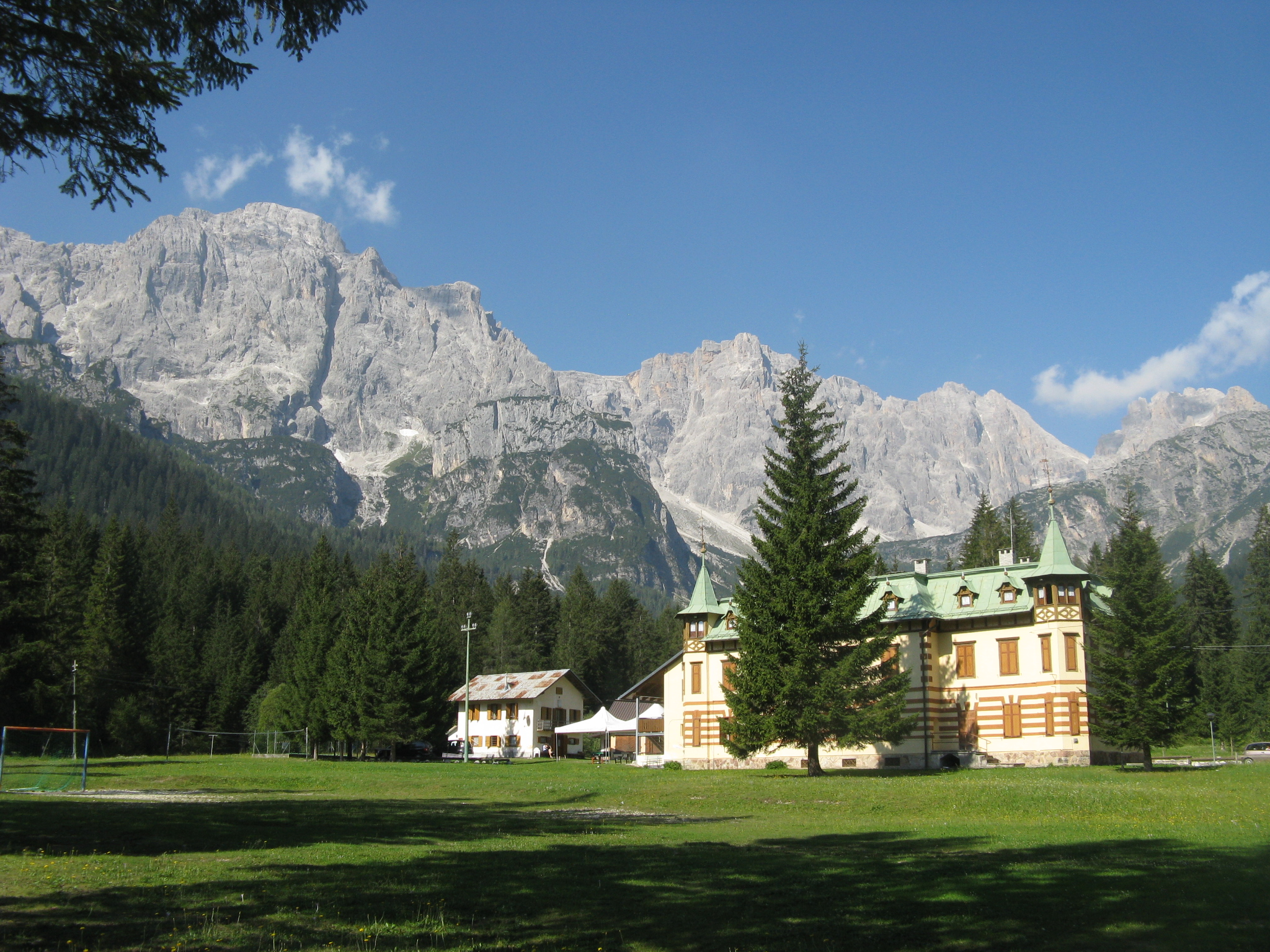 Terme di Valgrande, Comelico Superiore, Italy